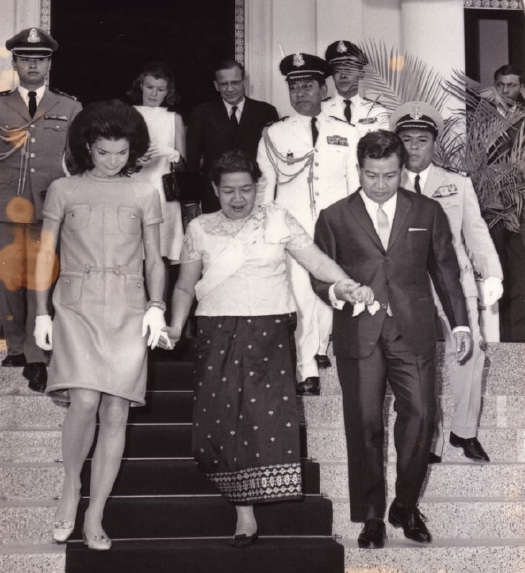 First Lady Jacqueline Kennedy, Queen Sisowath Kossamak, and Prince Norodom Sihanouk at the Royal Palace in November 1967.